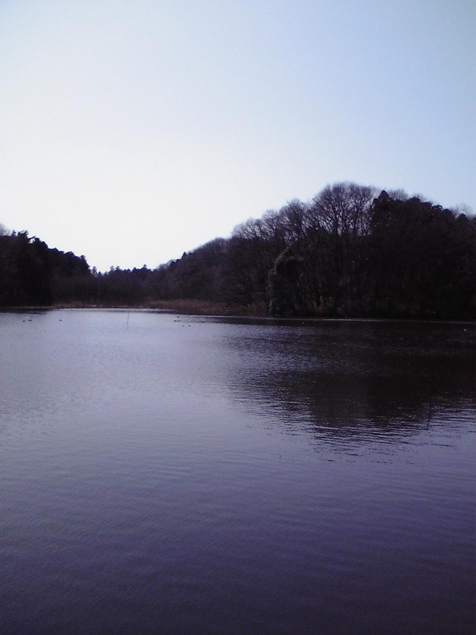 This is a photo of pond in Tsuchiura, Ibaraki,Japan. This pond is called "Shishitsuka Ohike".